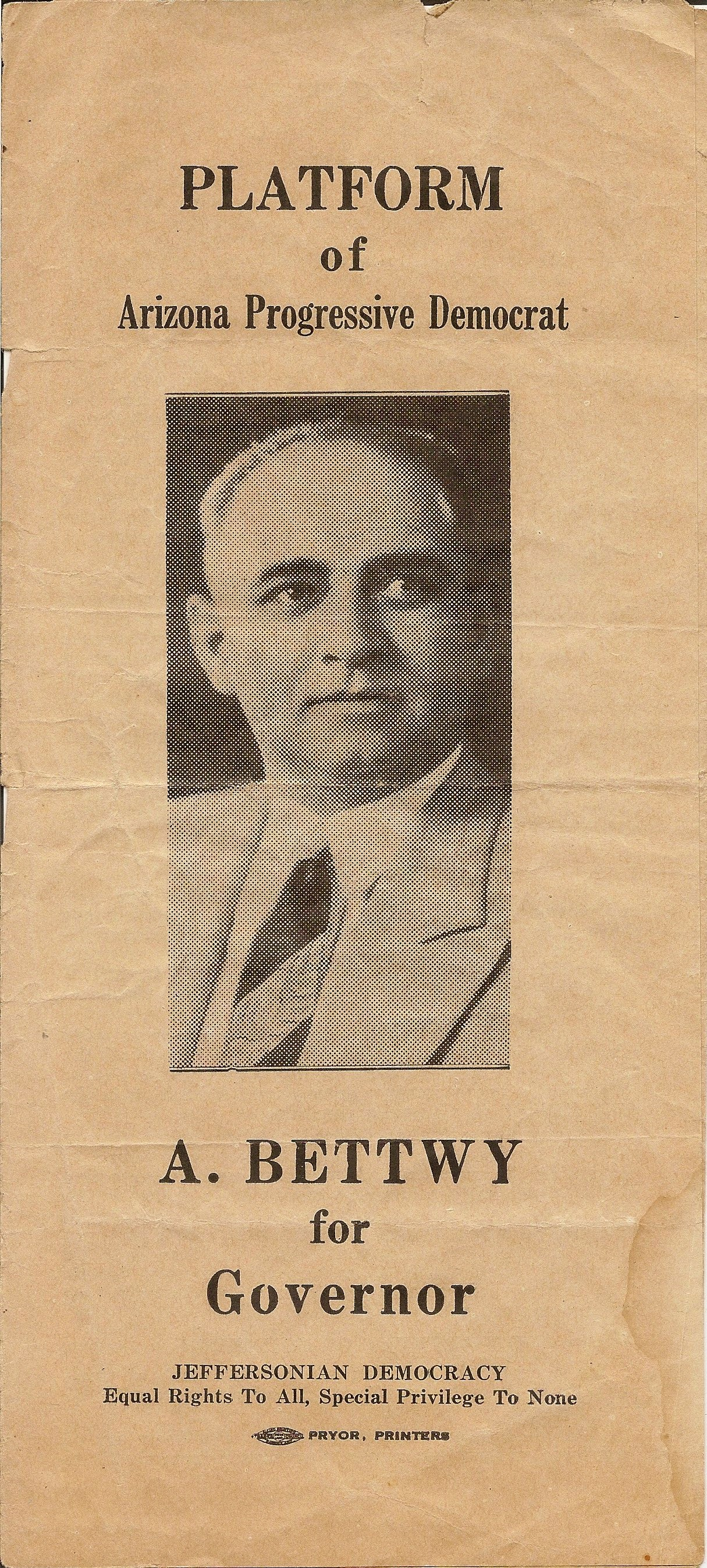 Cover of Andrew Jackson Bettwy's campaign brochure for the 1938 Arizona gubernatorial election